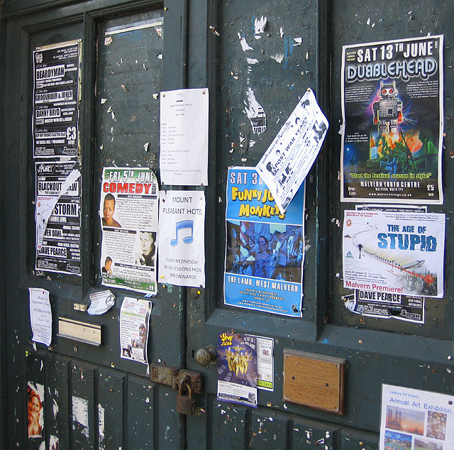 Post no bills in Church Street Looks like some bill posters can't read the sign which is close by.